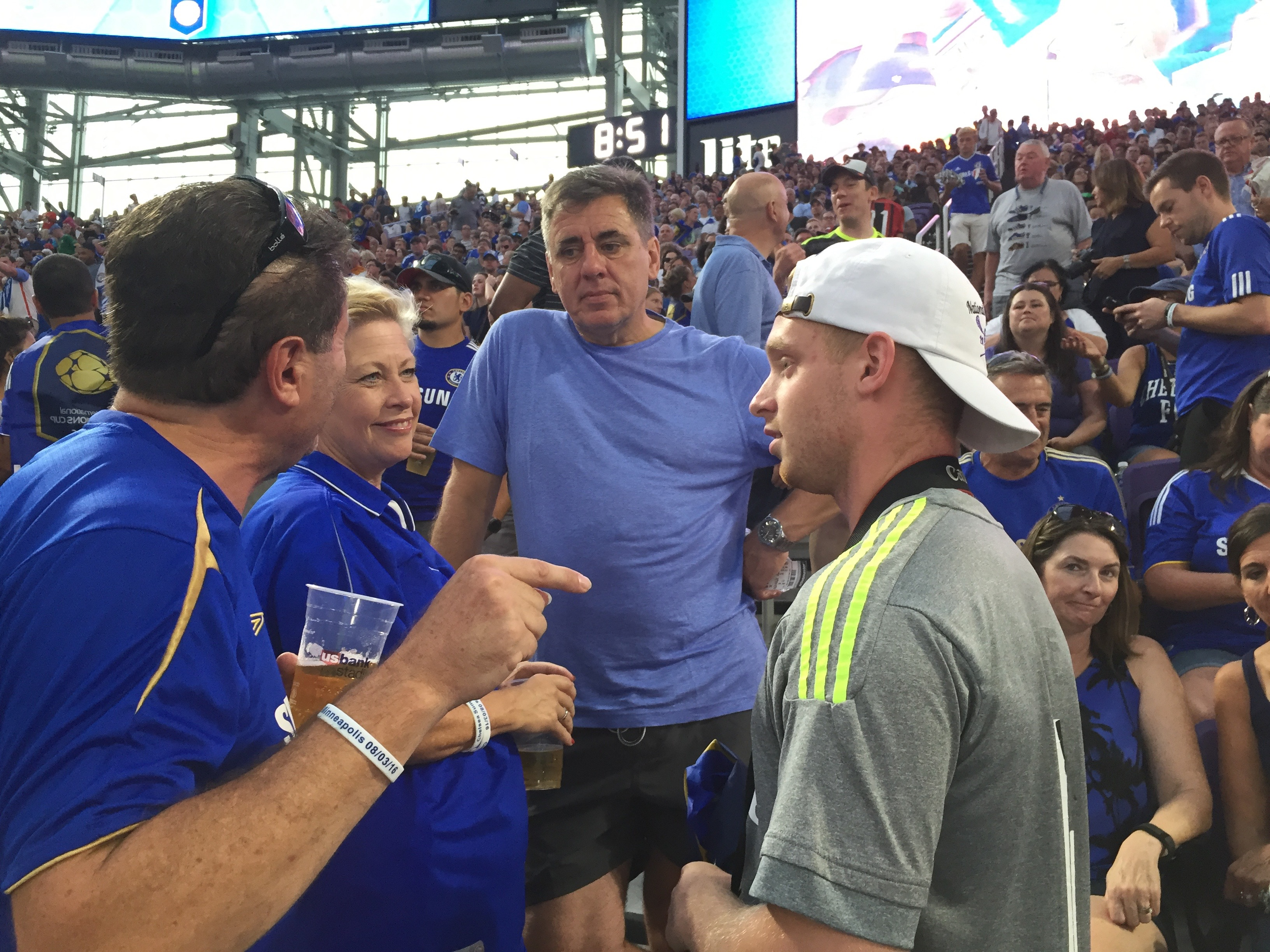 Gary Chivers attending a match at the new US Bank Stadium in Minneapolis MN on Aug 3 2016. Chatting with fans (Richard Leah and Pat) and signing autographs.